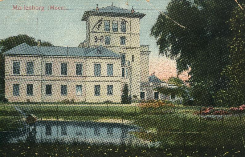 Postcard of Marienborg, a Danish manor house in Møn. Demolished 1984.